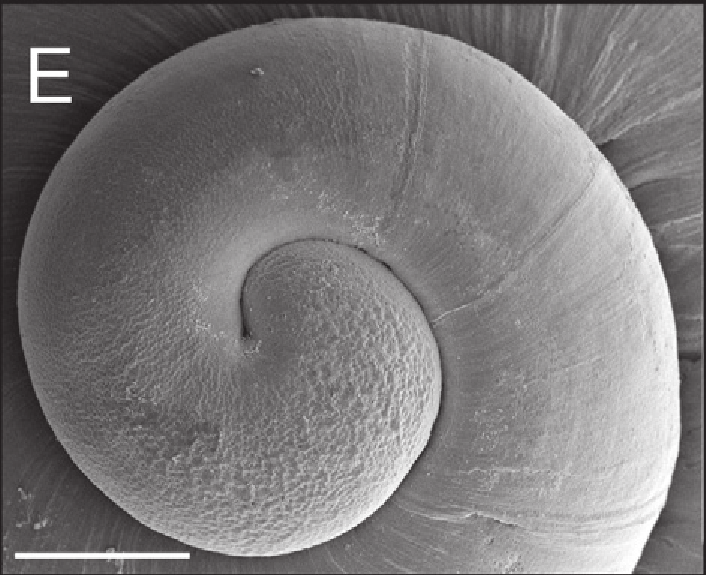 Photo of the protoconch of Marstonia comalensis USNM 874926. Scale bar is 100 μm.